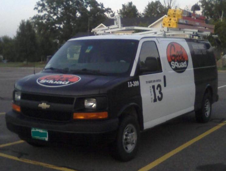 2003-present Chevrolet Express photographed in Williston, Vermont, USA.